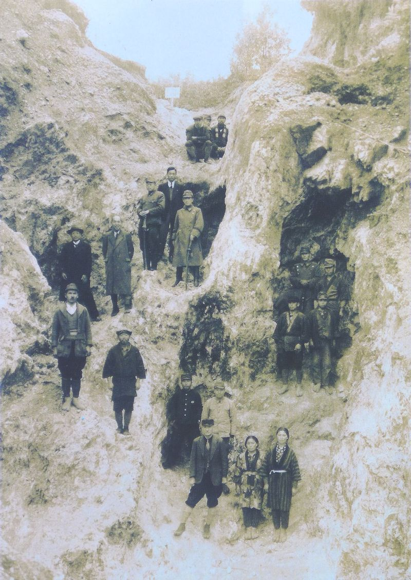 The investigation of deposit containing rare elements by the 8th Army Institute of Technology at Shionotaira Ishikawa county Fukushima prefecture in 1944.